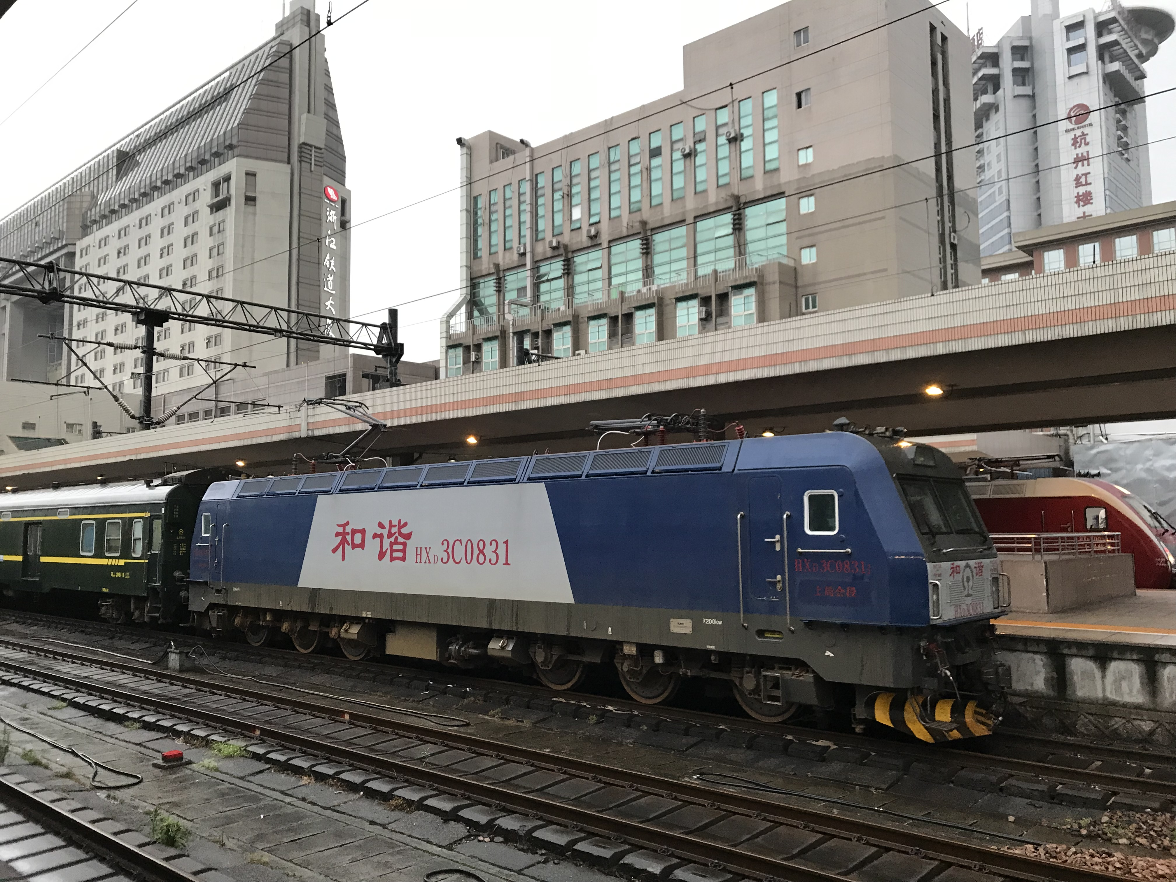 Switched to electrovoz now...